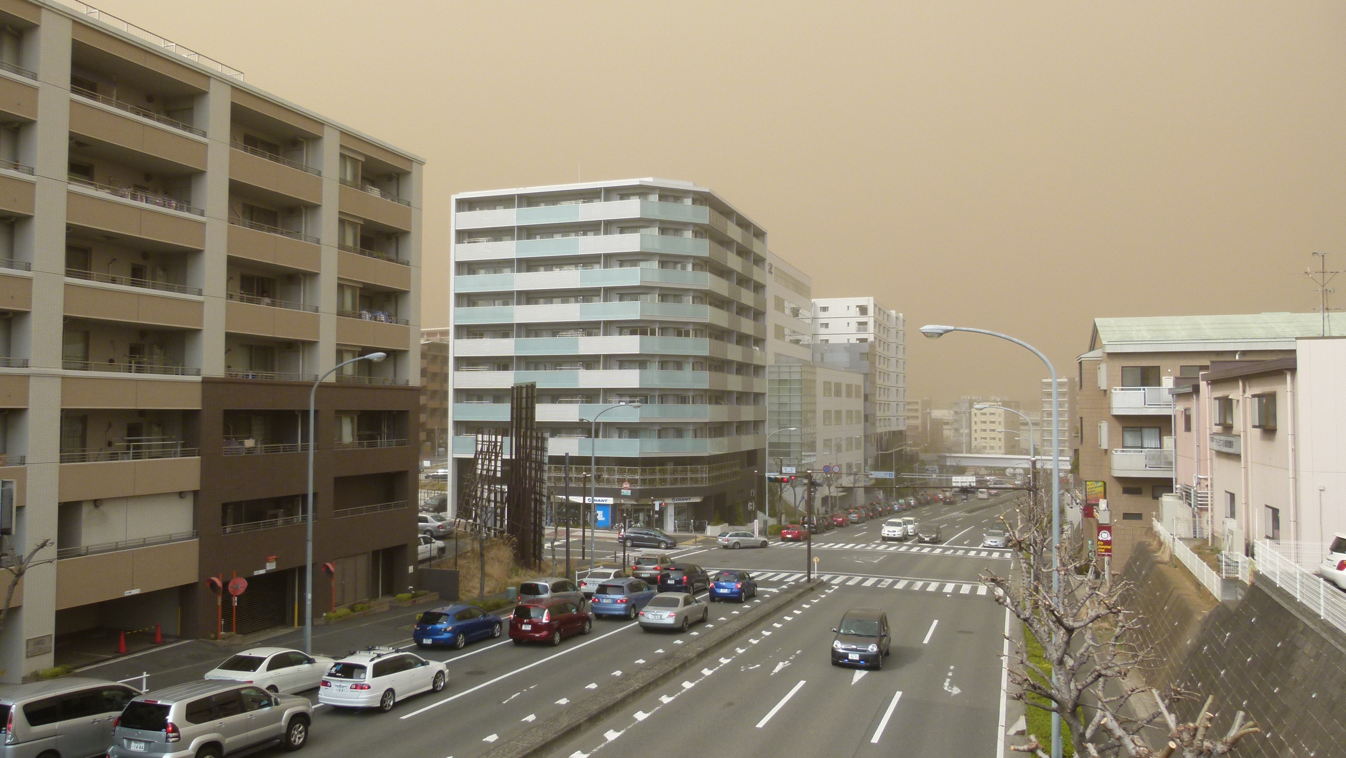 Intercontinental dust storm approaching Yokohama City from North, particulate matter like in China. Related peak PM 2.5 measurement in the area: 95ug/m3, health advisory limit 35ug/m3. Days where visibility drops like this happen once or twice in a bad year, when winds sweep the smog from the nearby continent. More... [1] [2] note